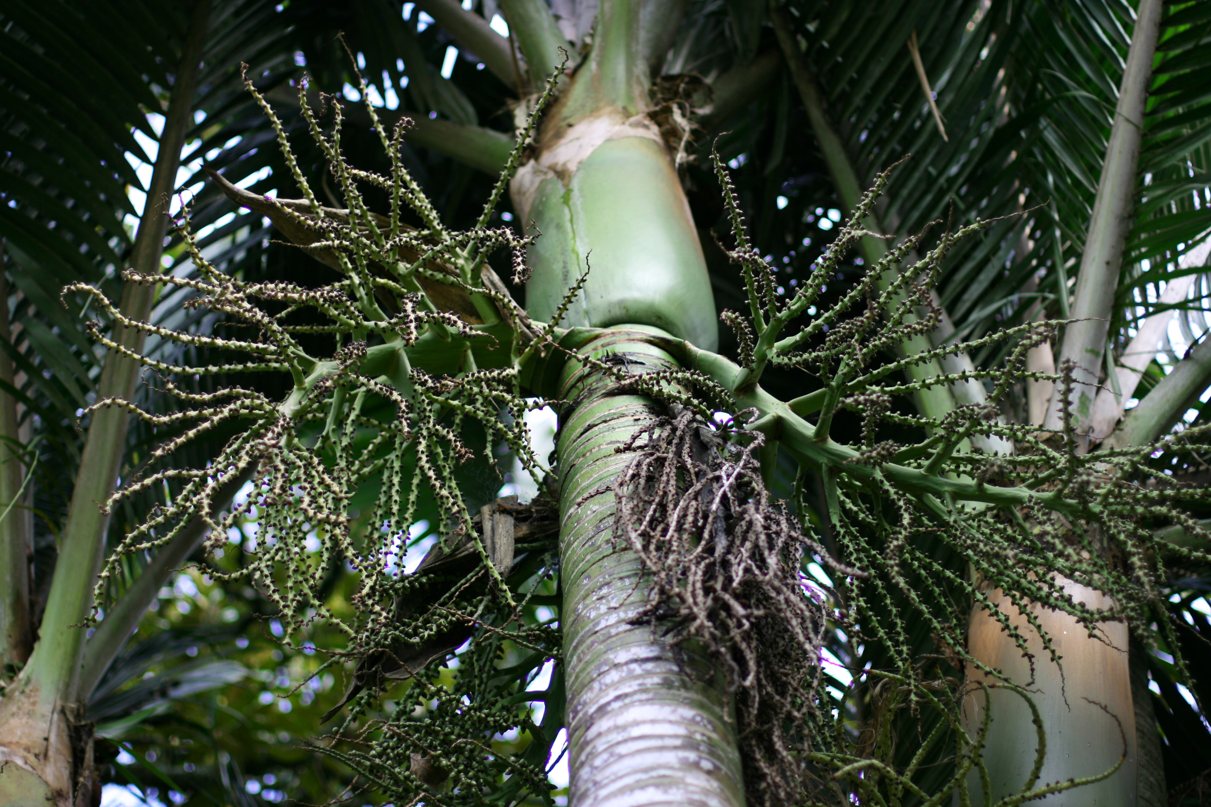 Rhopalostylis baueri, Kermadec Nikau, University of Auckland, New Zealand.